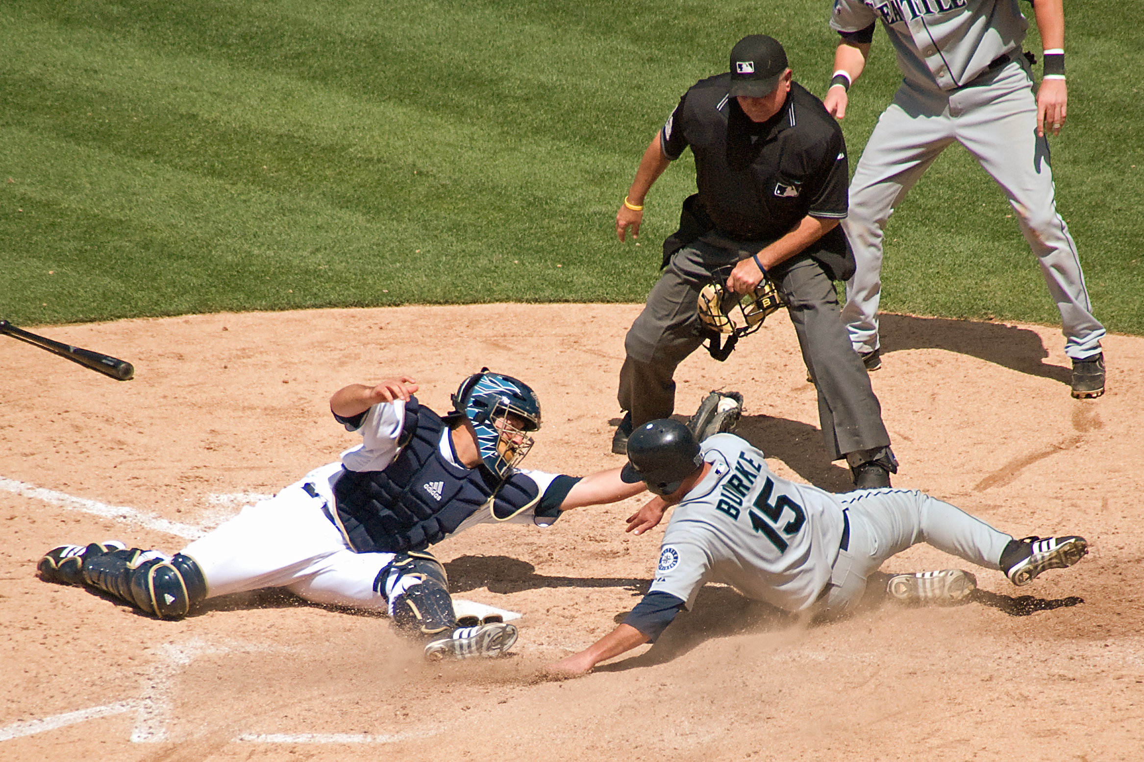 Jamie Burke is called safe at home after a late tag.